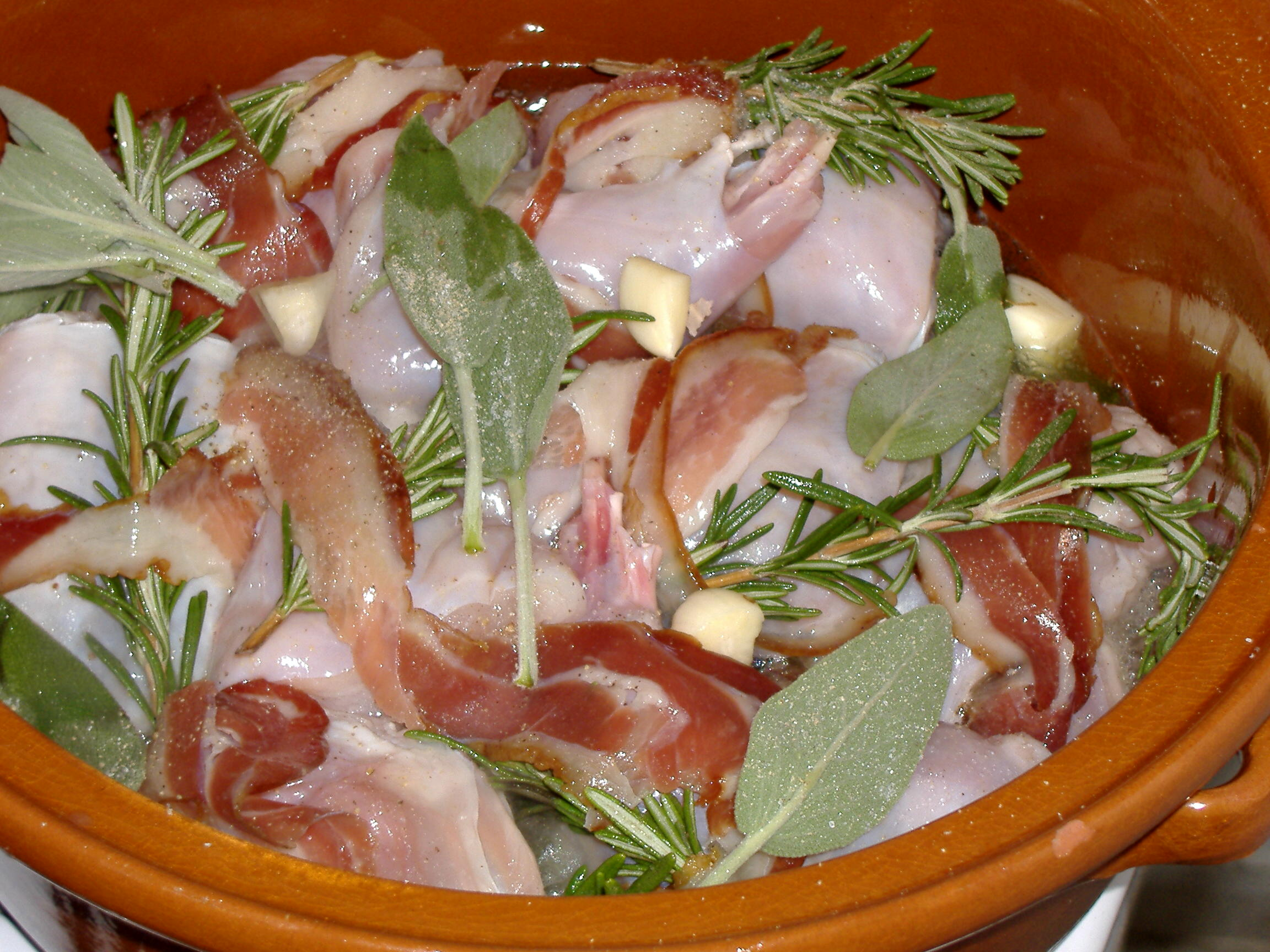 Rabbit in terracotta, before cooking.